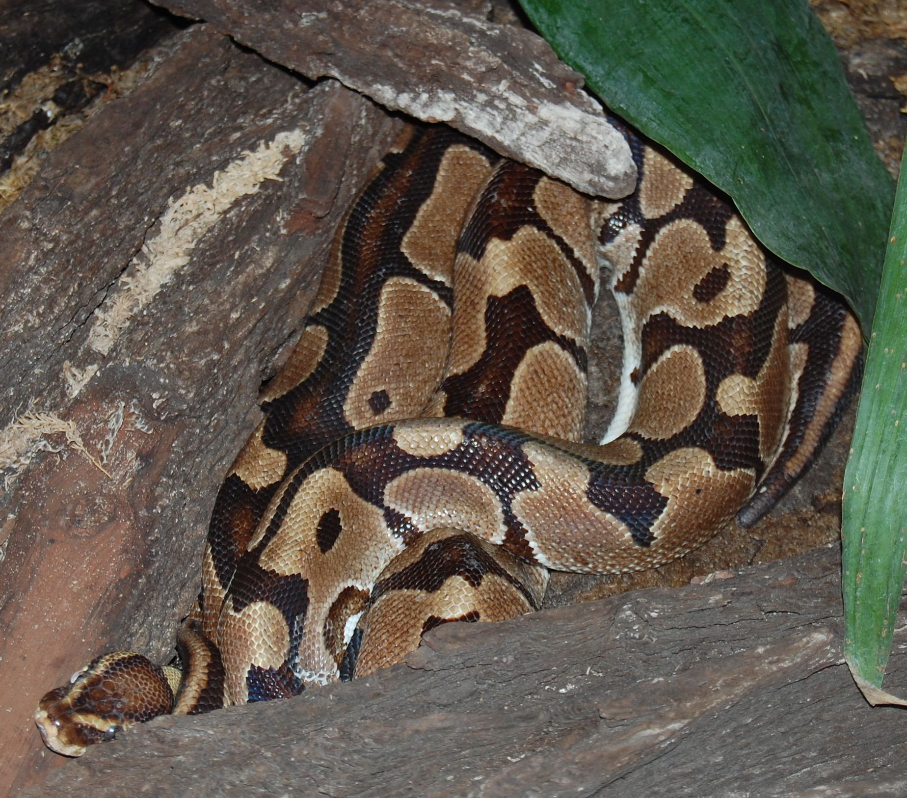 Python regius